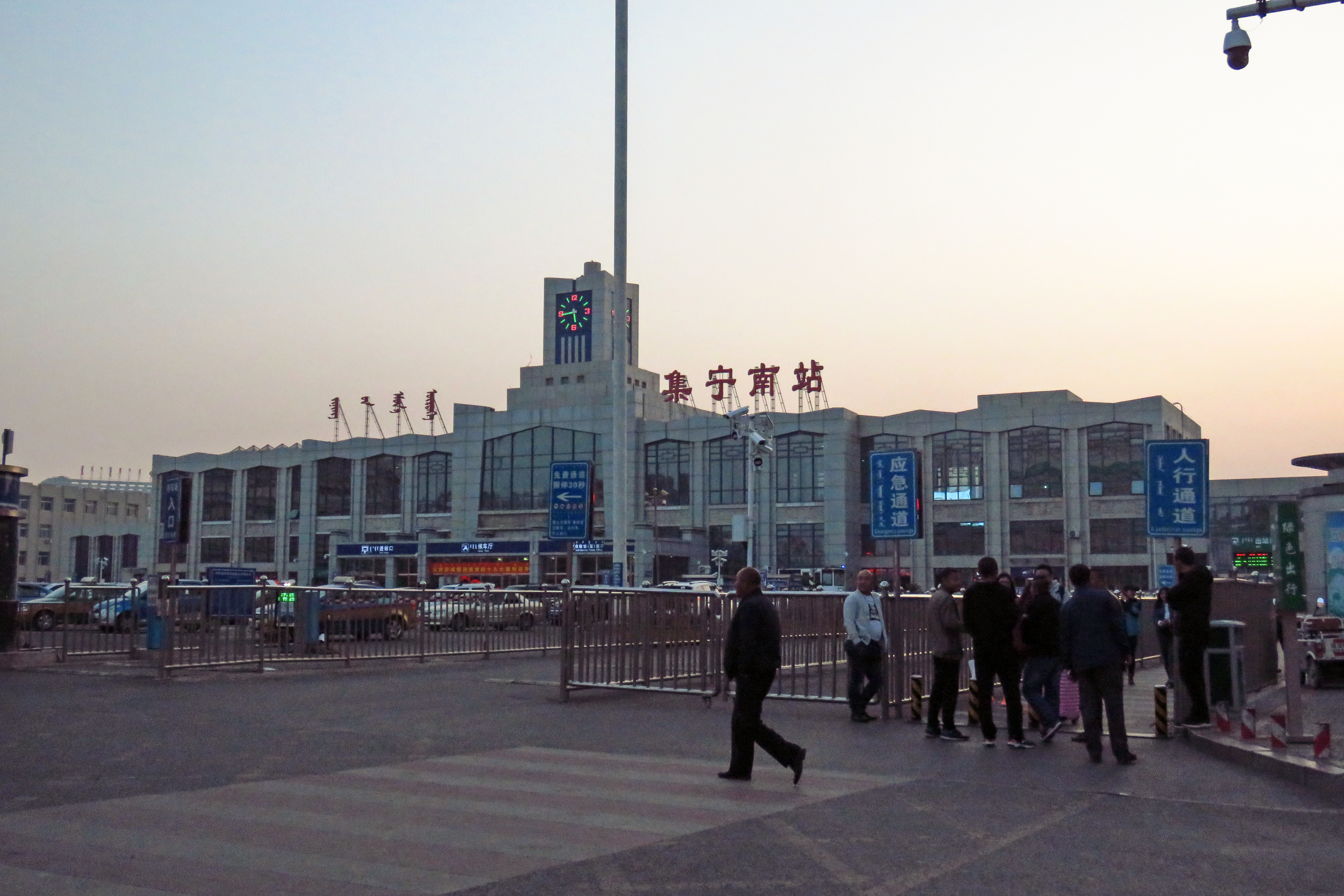 This one is in the old city.